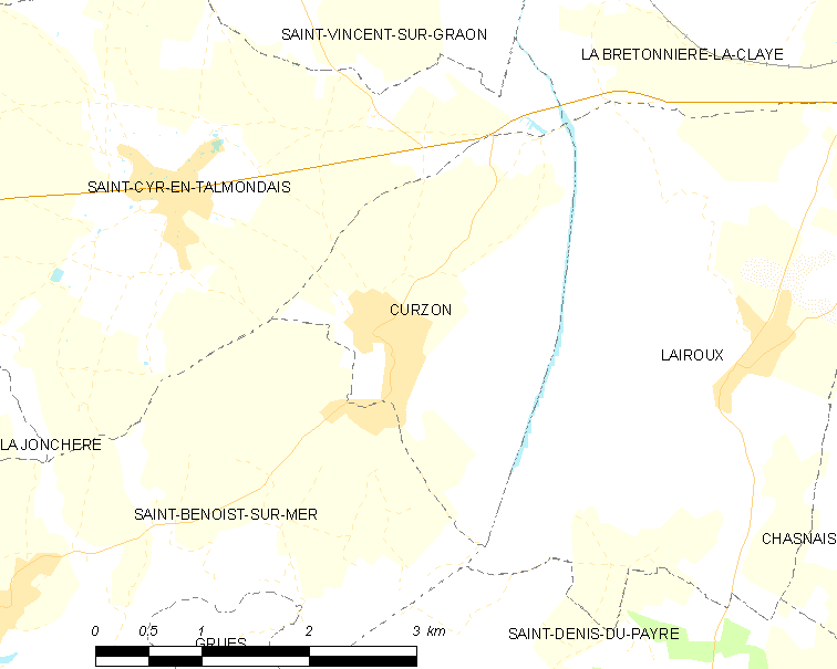 Map of French municipality Curzon